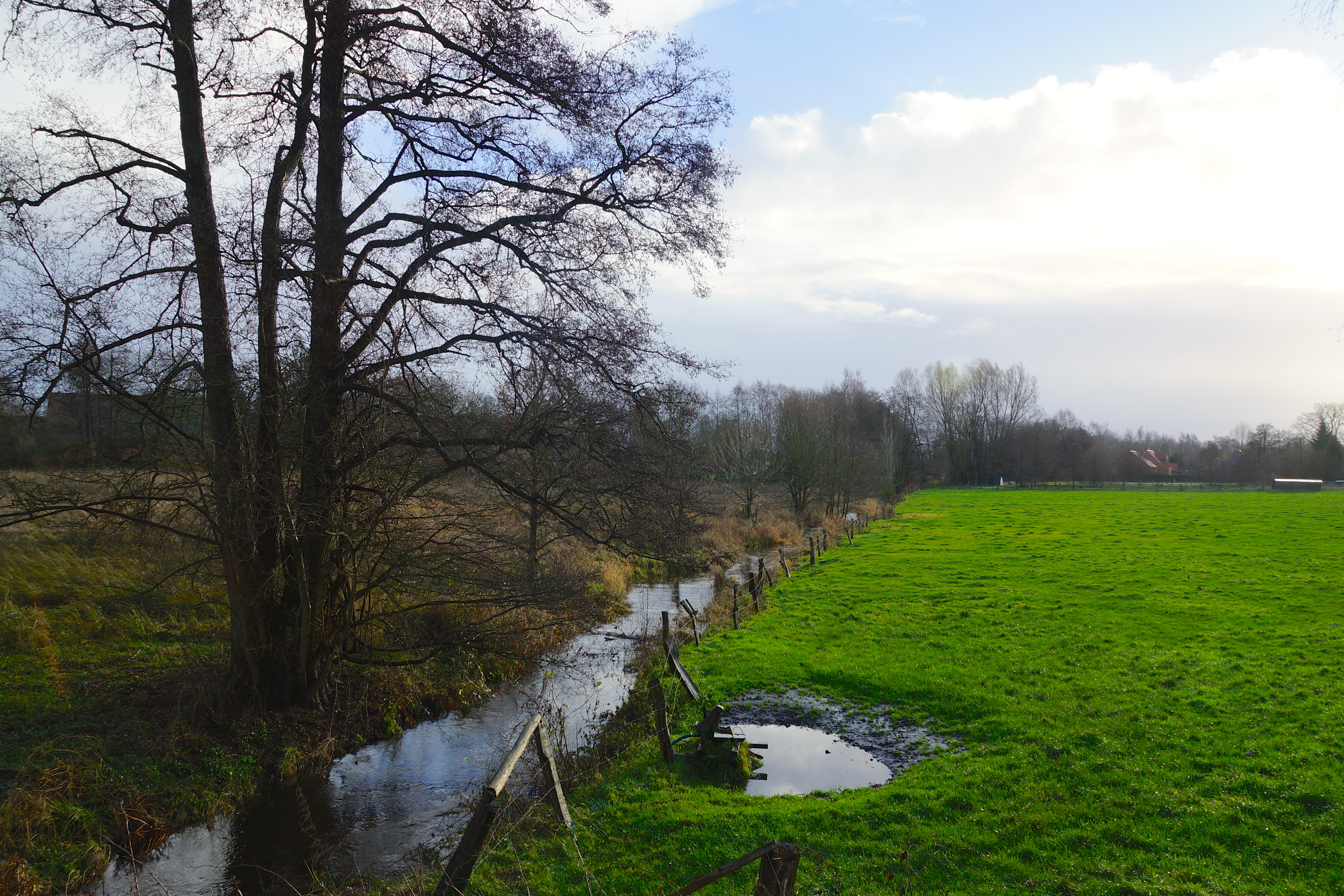 Oersdorf (Oersrdorf), Germany: Ohlau